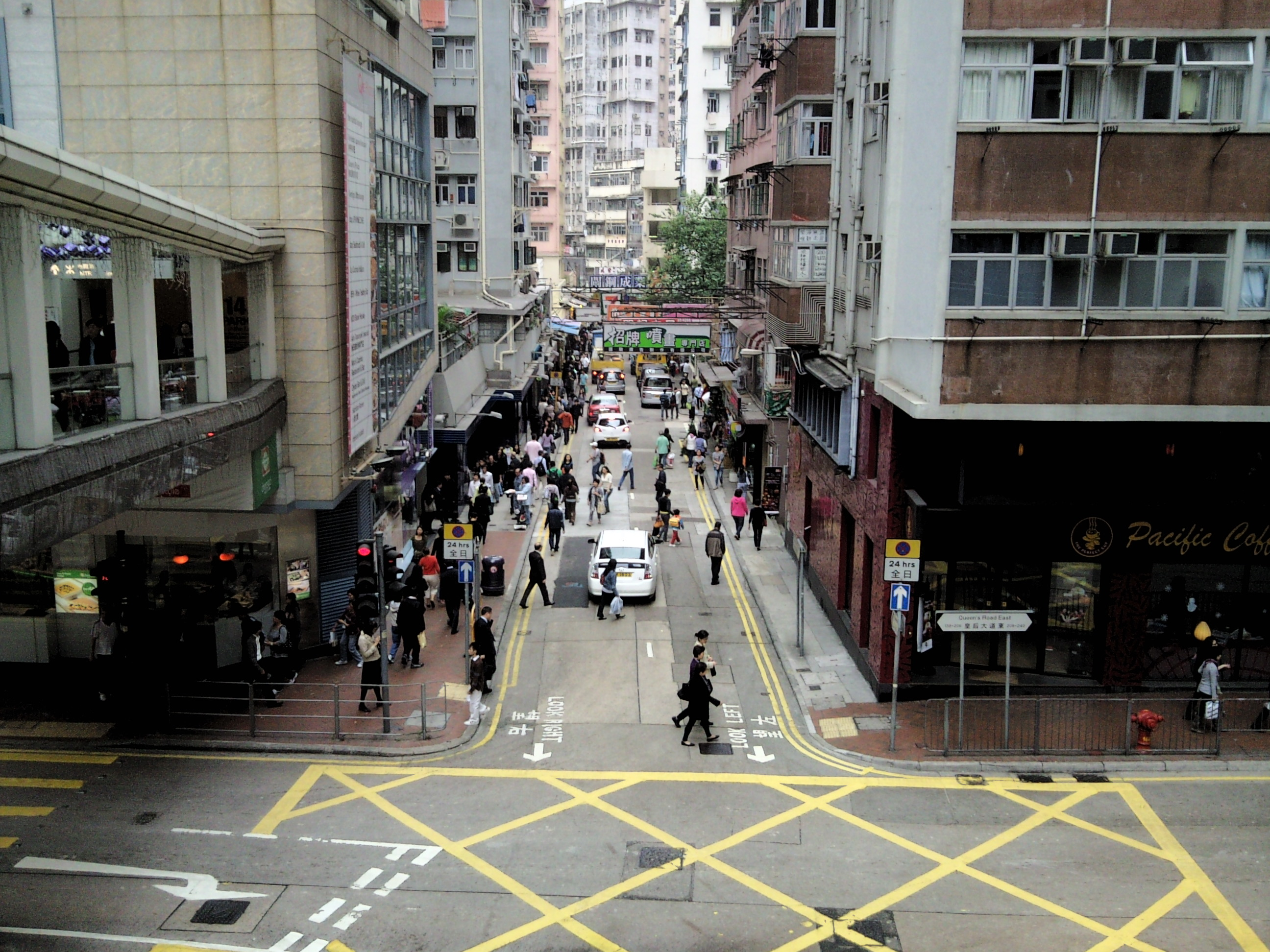 Spring Garden Lane near Queen's Road East in Hong Kong